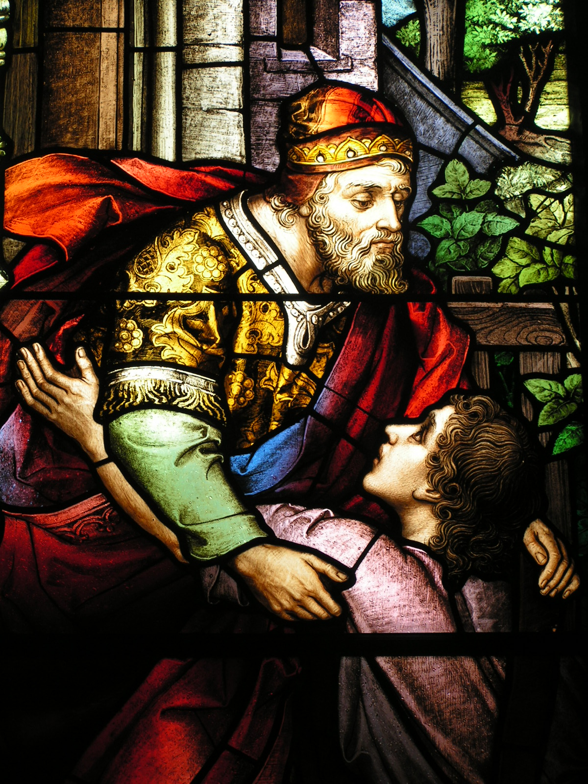 The Mayer Company's creation of stained and painted glass was at its height of production and artistry when the Cathedral's windows were installed in 1907.